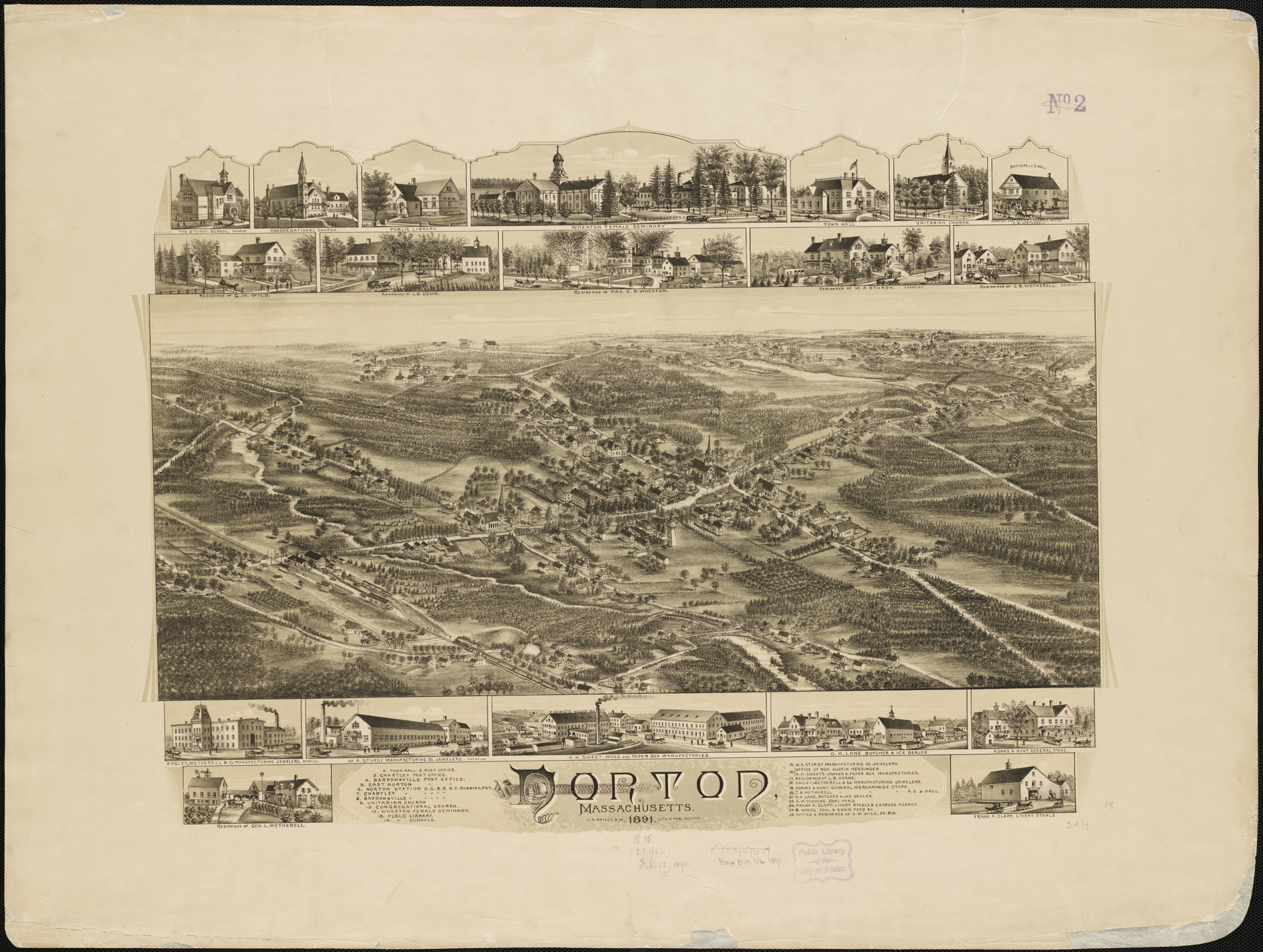 Zoom into this map at . Publisher: O.H. Bailey & Co. Date: 1891 Location: Norton (Mass.) Scale: Not drawn to scale. Call Number: G3764.N86A3 1891.N6